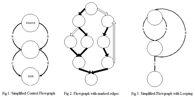 Simplified Control Flowgraph